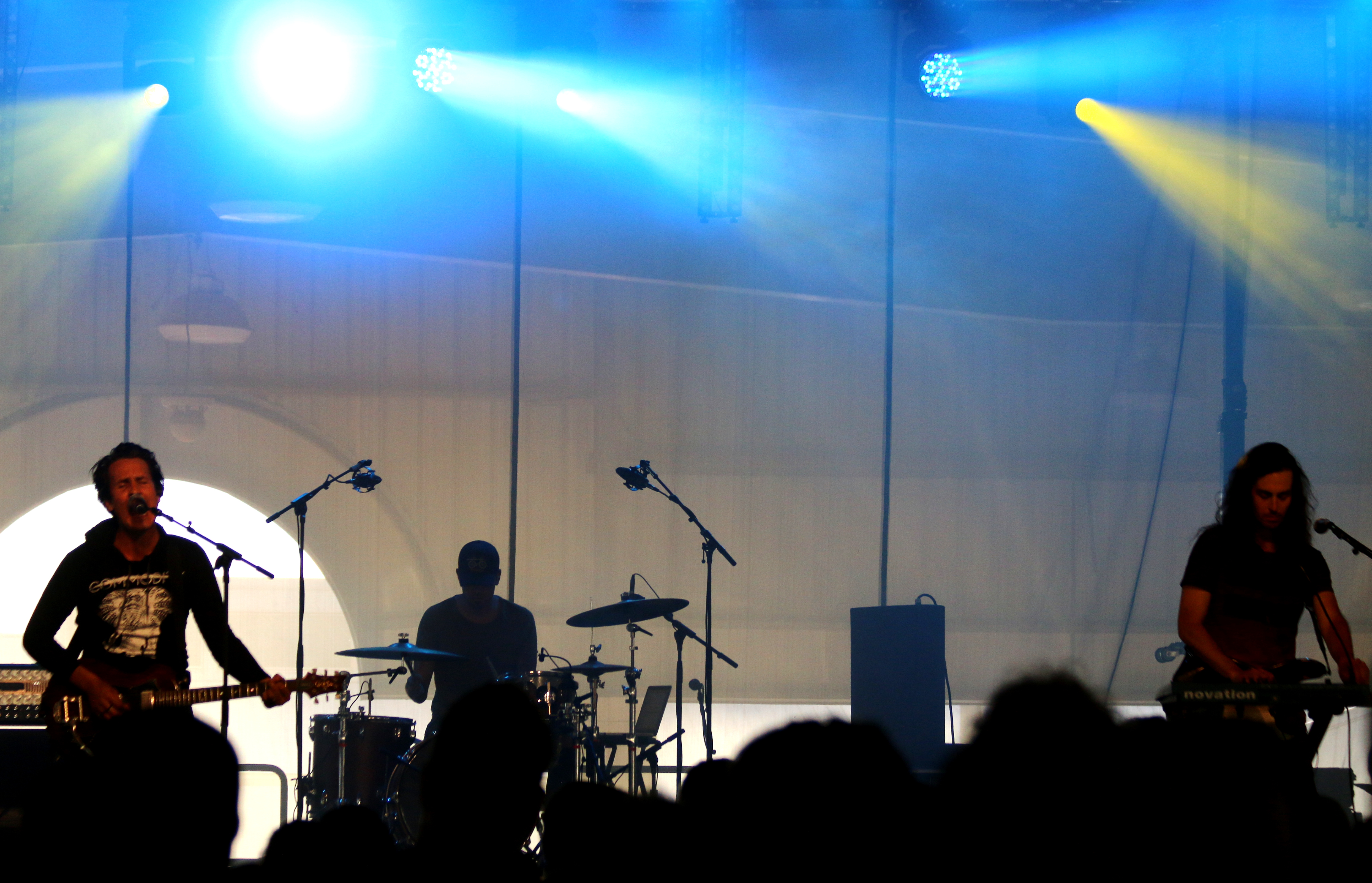 Remedy Drive performing at Lifest.